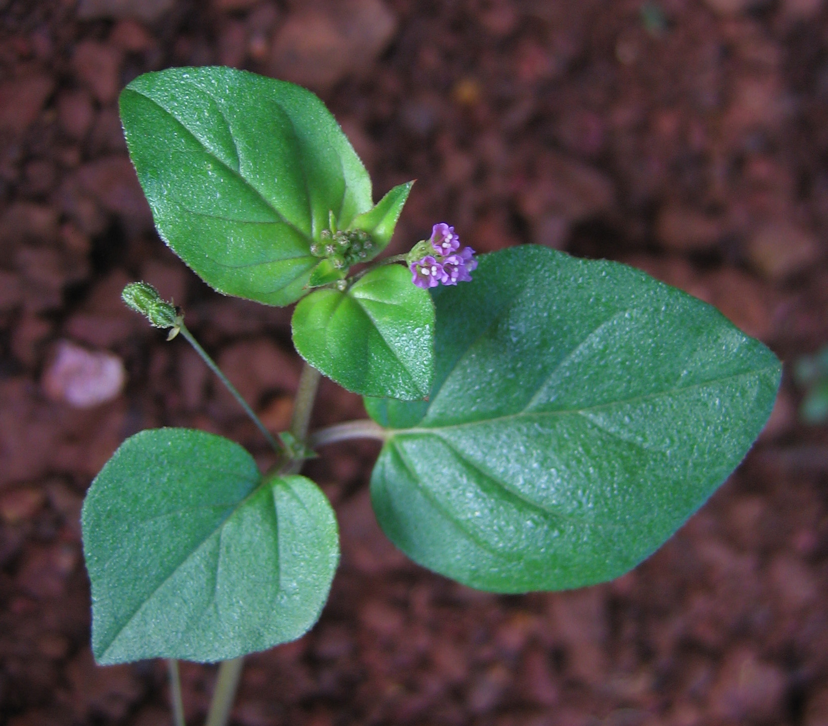 Boerhavia diffusa flower